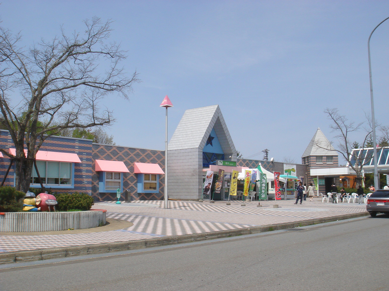 Hokkaidō Expressway Sunagawa Service Area for Asahikawa